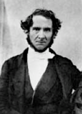 crop of Robert Terrill Rundle and his wife Mary Wolverson